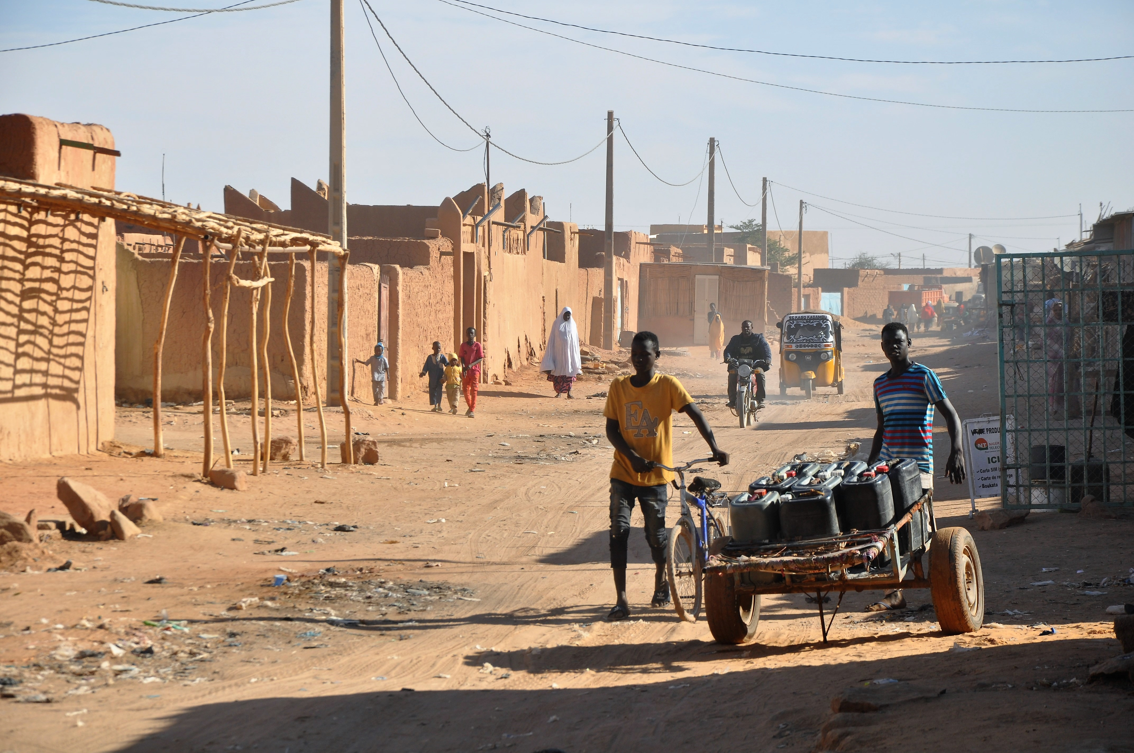 Street scene in Arlit, a large mining town in northern Niger.